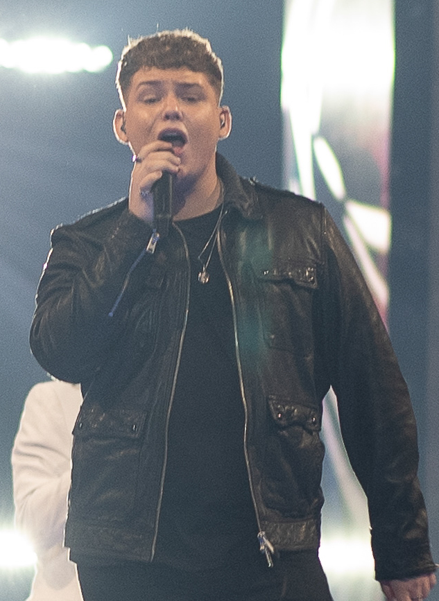 At the 2019 Eurovision Song Contest Grand Final Dress Rehearsal